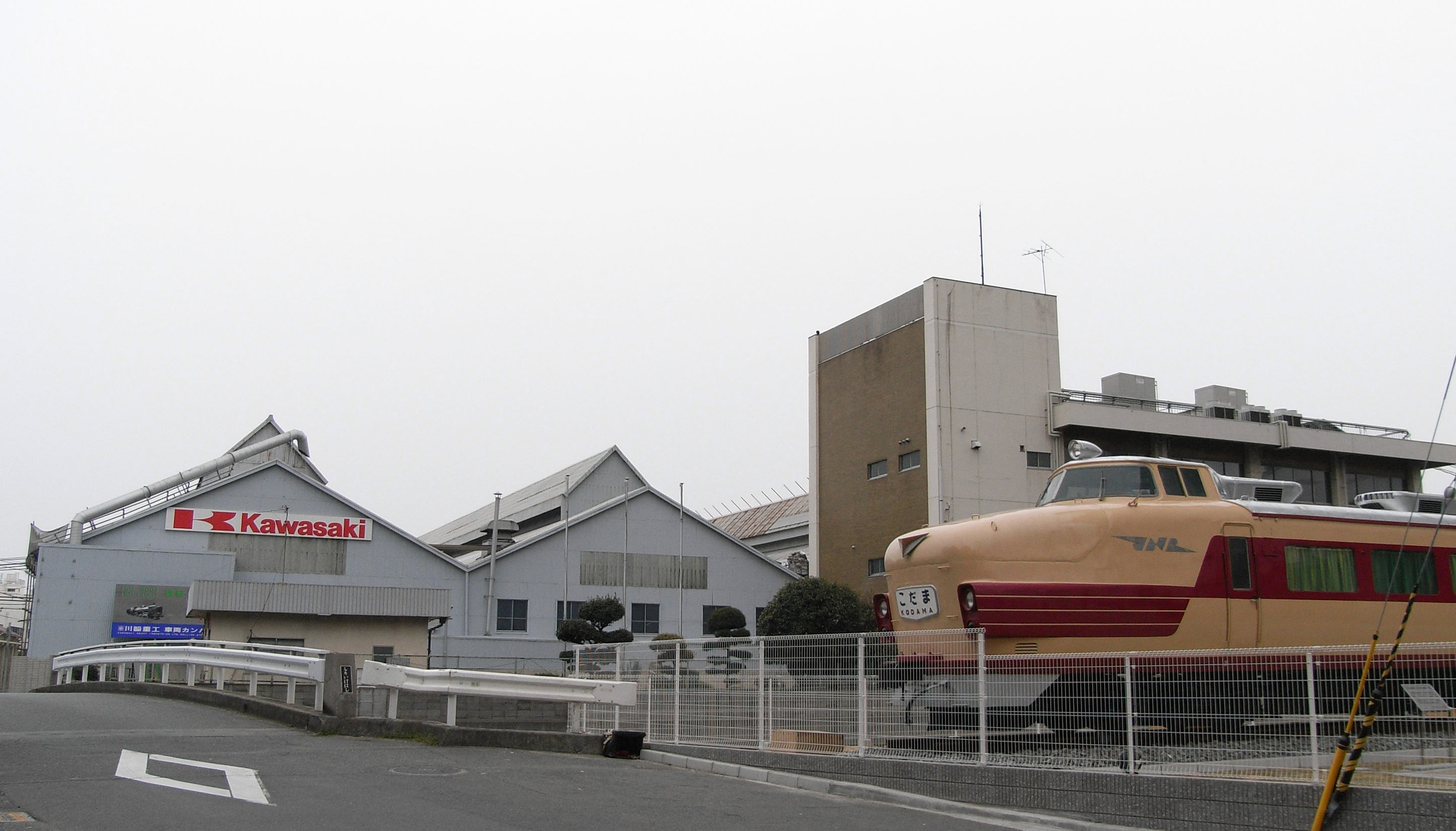 Kawasaki Heavy Industries Hyogo Works in Kobe, Japan.